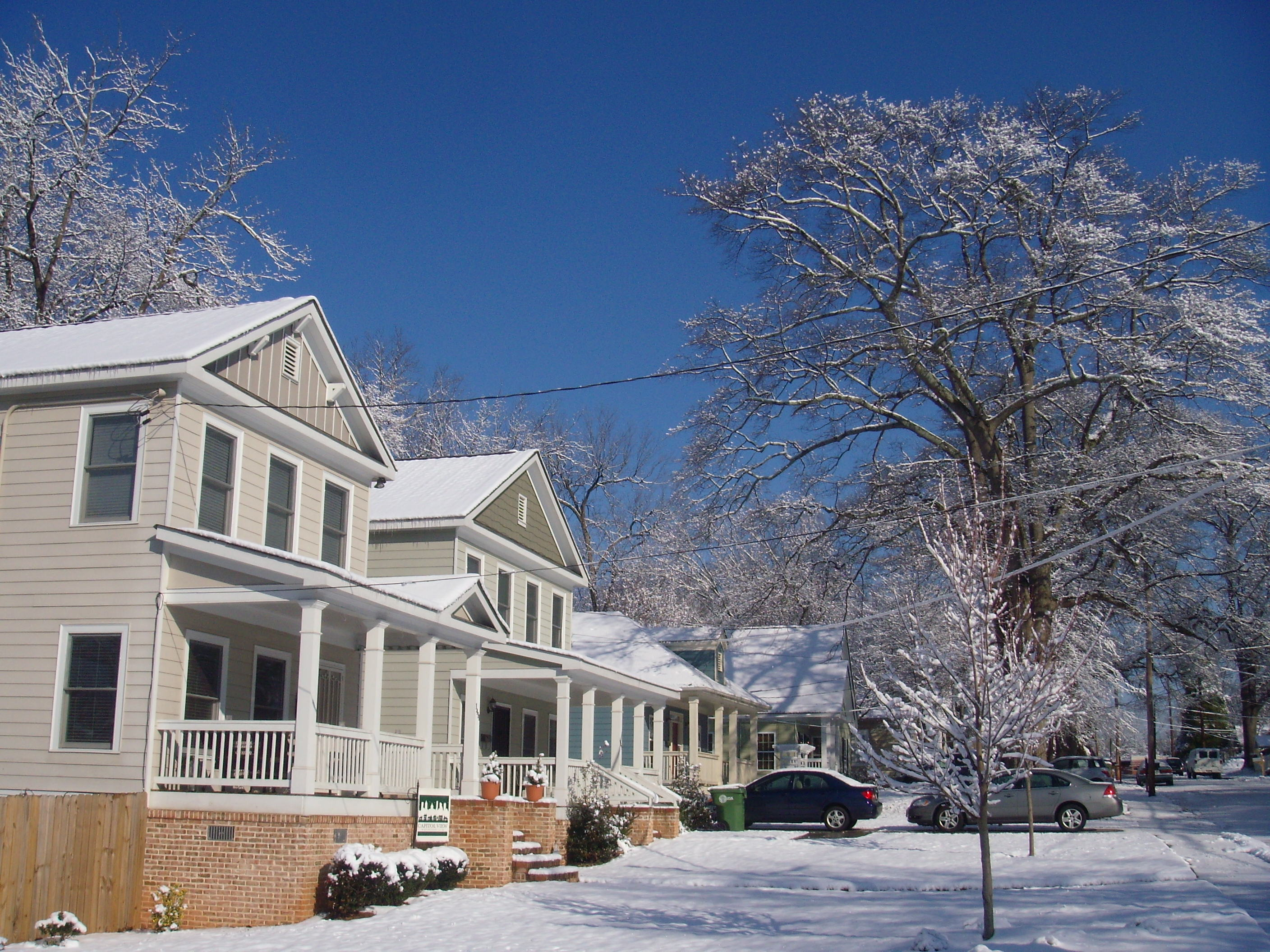 Typical Street in Capitol View.